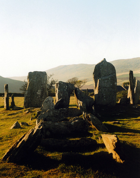 Cashtal yn Ard With your back to the sea, looking from what was the chamber of the cairn through the entrance stones towards the hilly centre of the Isle of Man. The cairn was originally covered over.